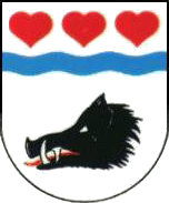 Coat of Arms of Deutsch Evern First upload in de-wp: Ethan83 (22:35, 8. Nov. 2006 - Bild:Deutsch Evern.jpg)